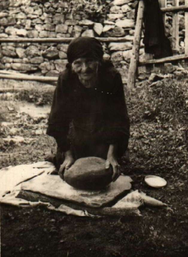 Use trahalnitsa - primitive kind hand grinder for grinding flour in the Rhodope Mountains, Bulgaria.